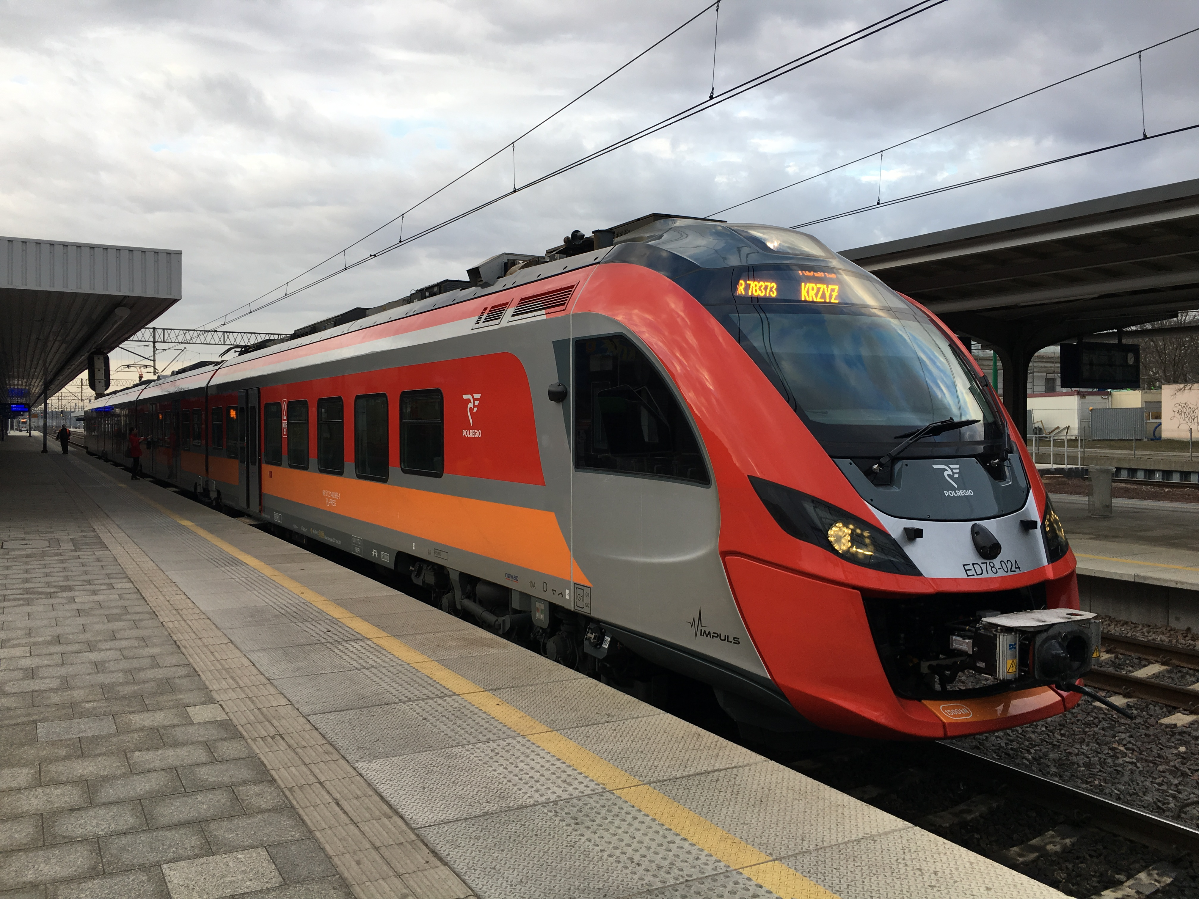 Newag Impuls (ED78) - an EMU of Przewozy Regionalne Ltd. - at the train station Poznań Główny